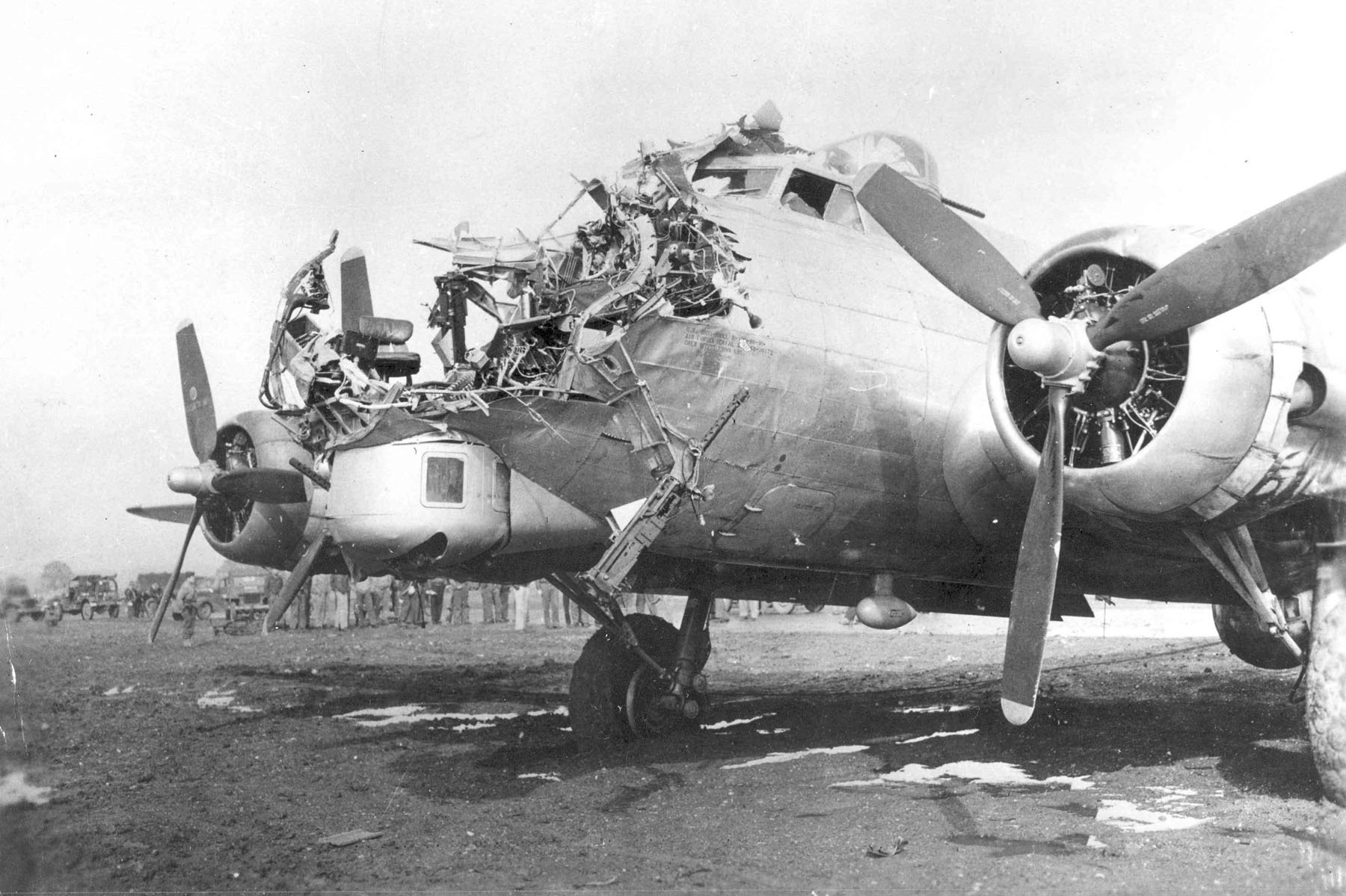 B-17 Damaged on Bombing Mission over Cologne, Germany (USAF Photograph)